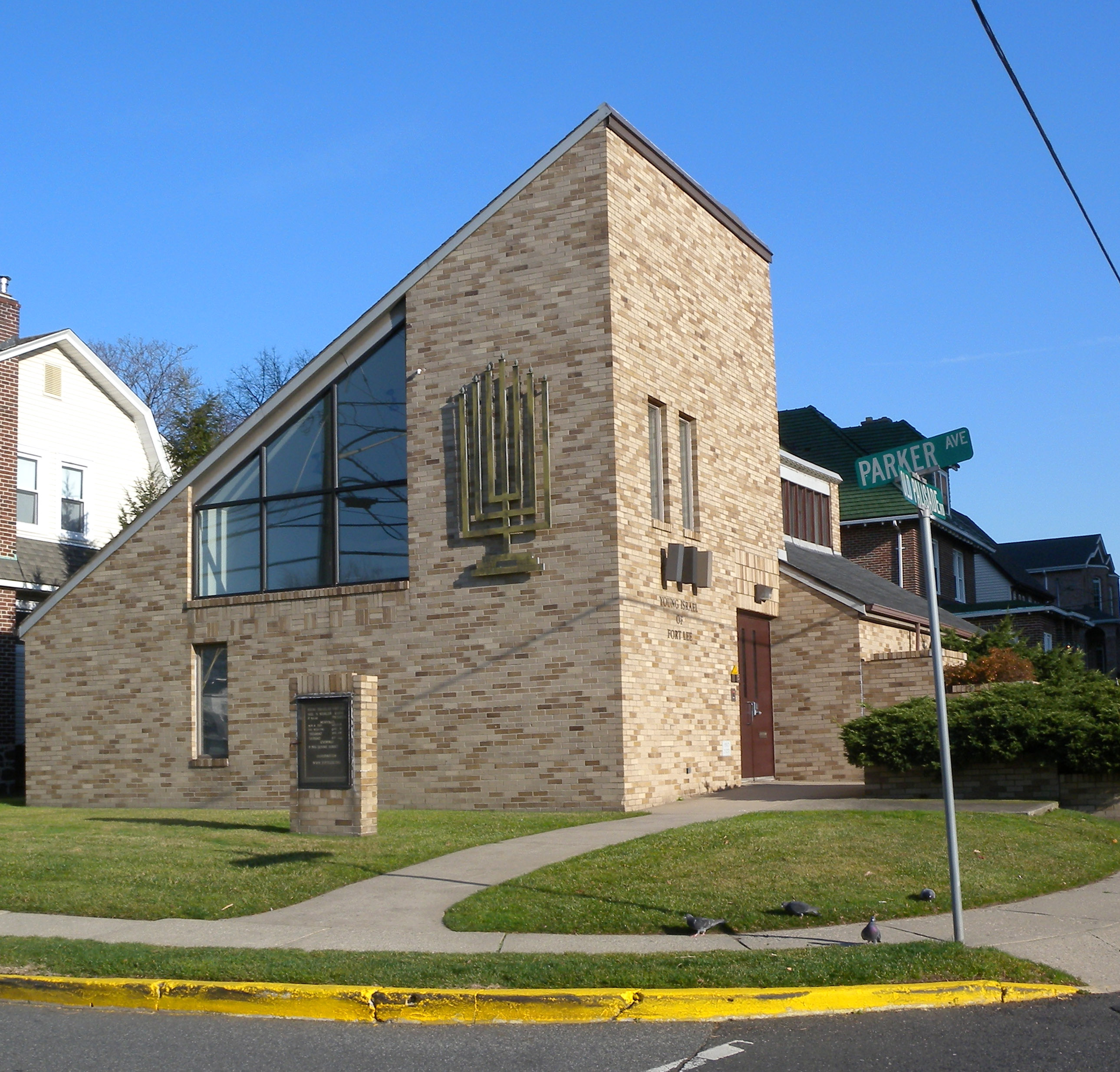 Looking east at Young Israel synagogue on a sunny midday.